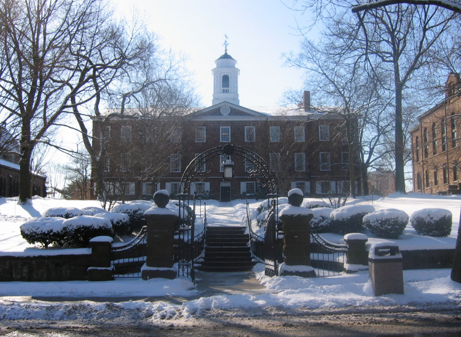 Old Queens, at Rutgers University, on a wintry day, as photographed by User:Rickyrab. Please refer to the bottom of Rickyrab's user page for licensing terms.